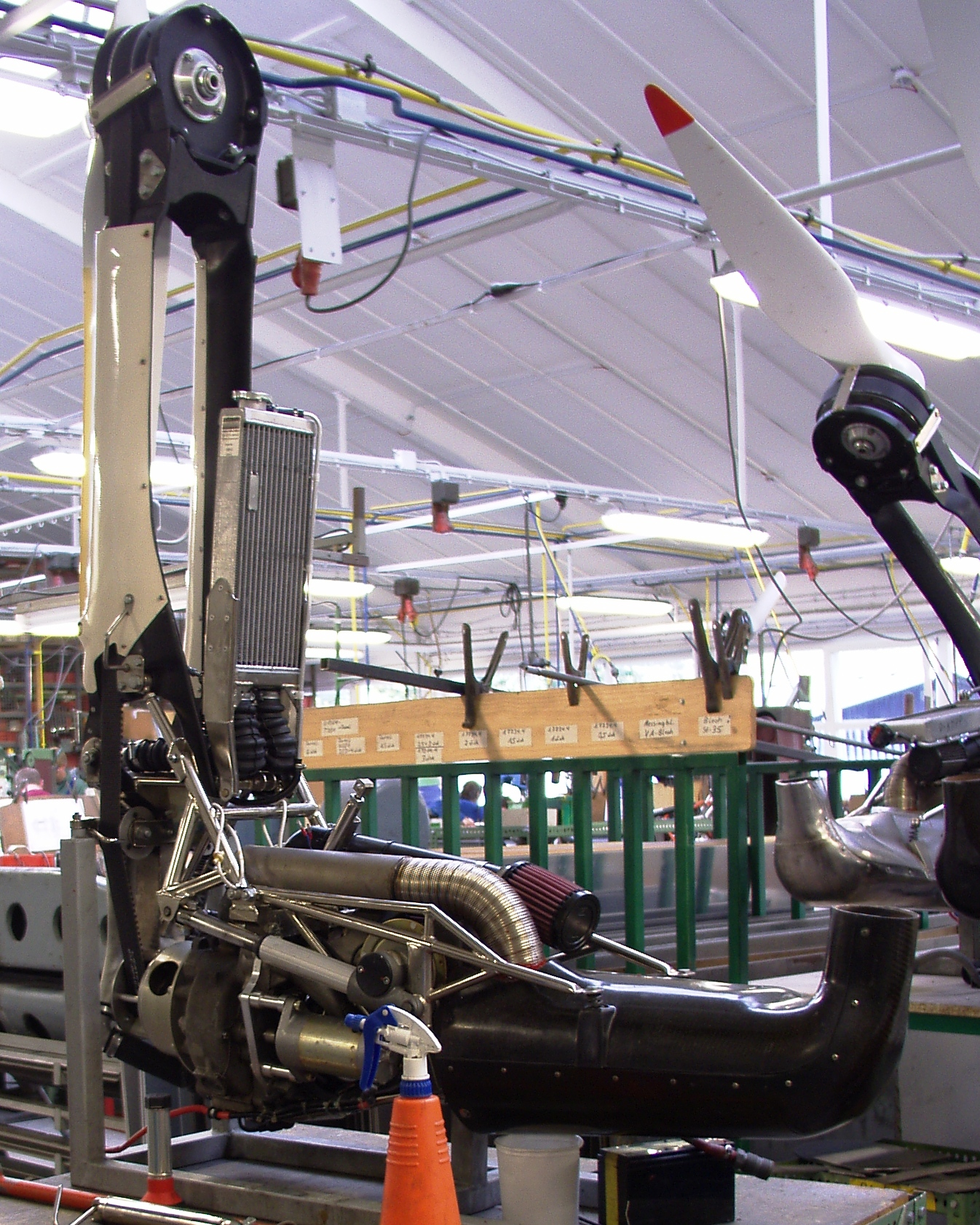 Propulsion system which compose of a Wankel motor